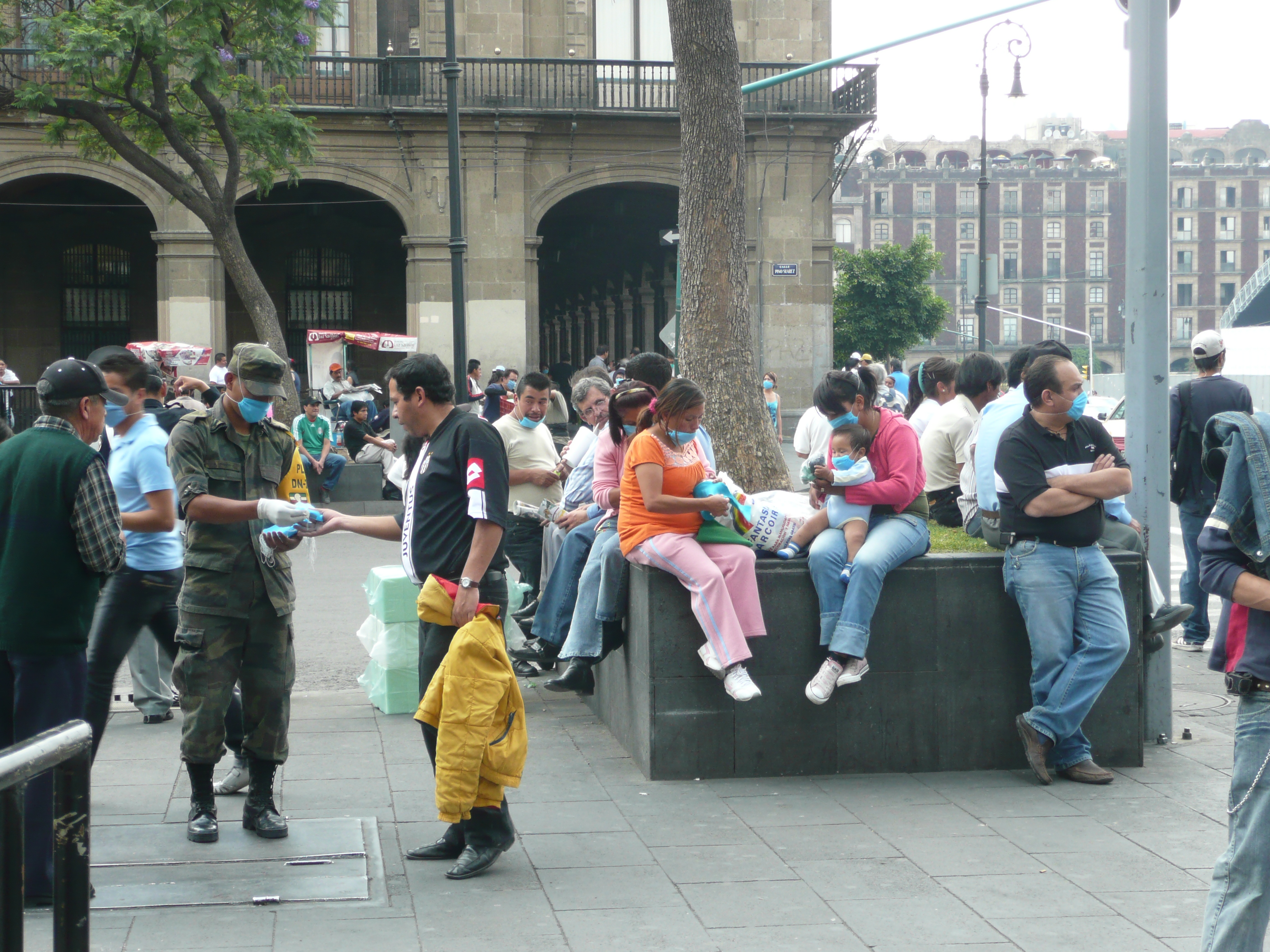 Mexican military giving out swine flu masks. They are the #1 fashion accessory around here right now.